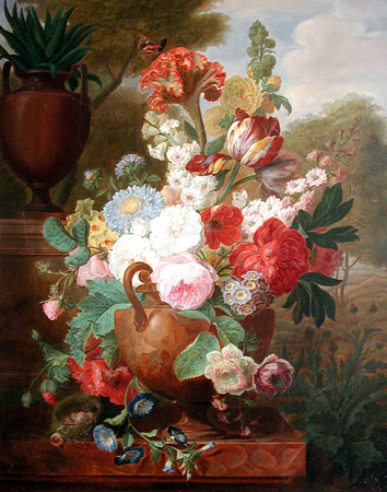 Still Life of Flowers in an Urn